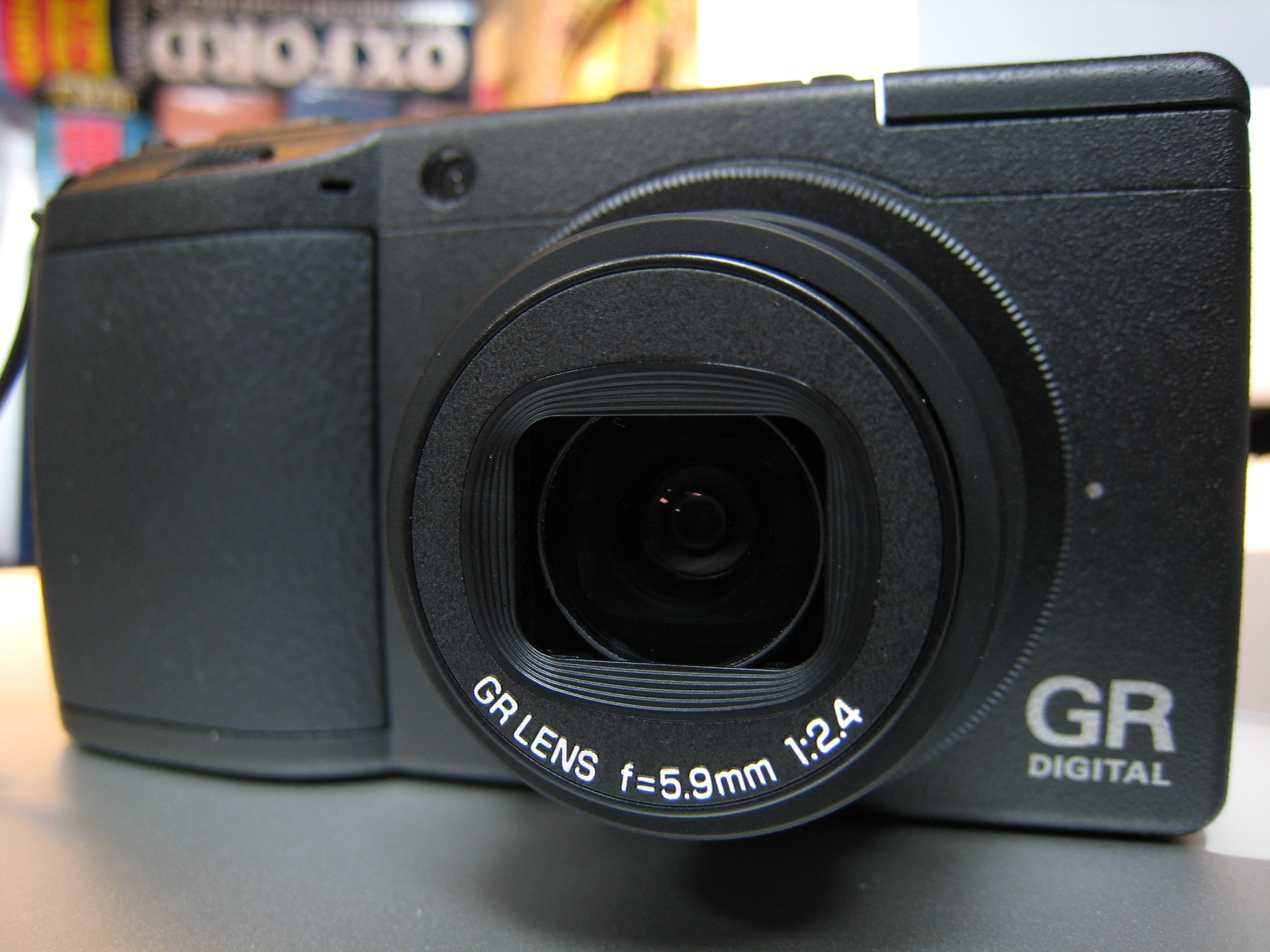 Ricoh GR Digital II camera, front facing with the lens protruded